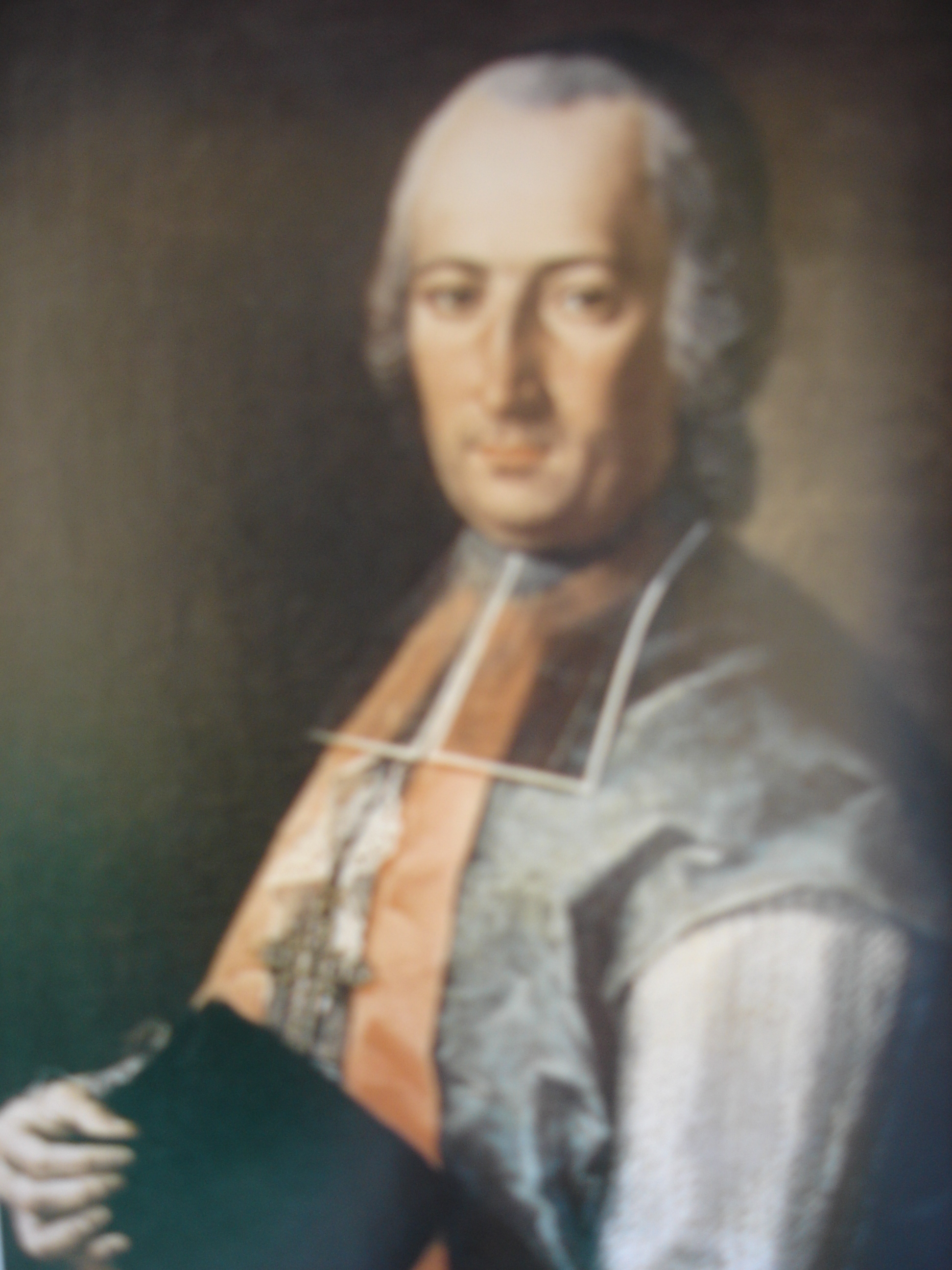 Portrait of Kaspar Ignaz von Künigl (1671-1747)